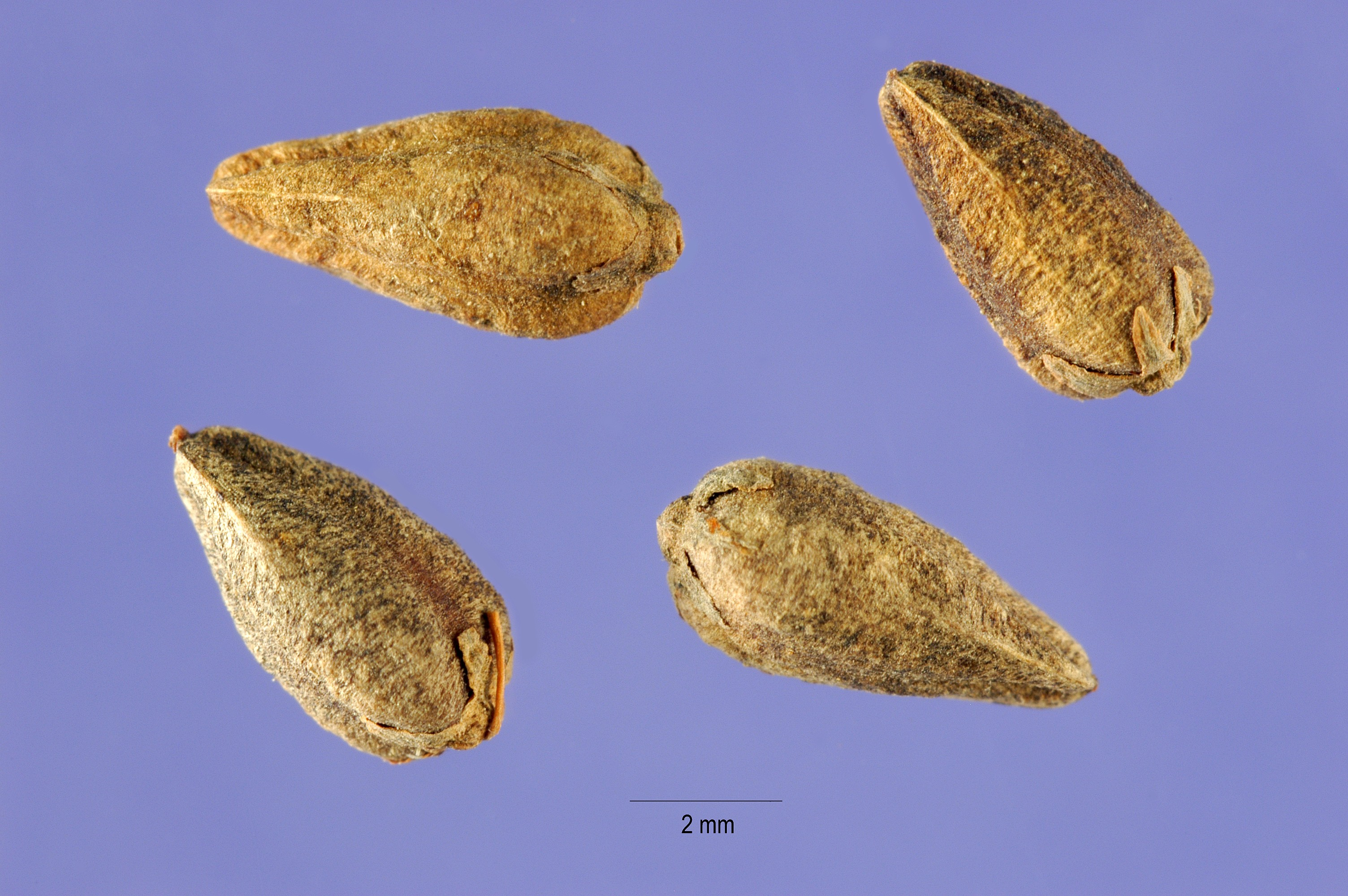 Fagopyrum tataricum seeds